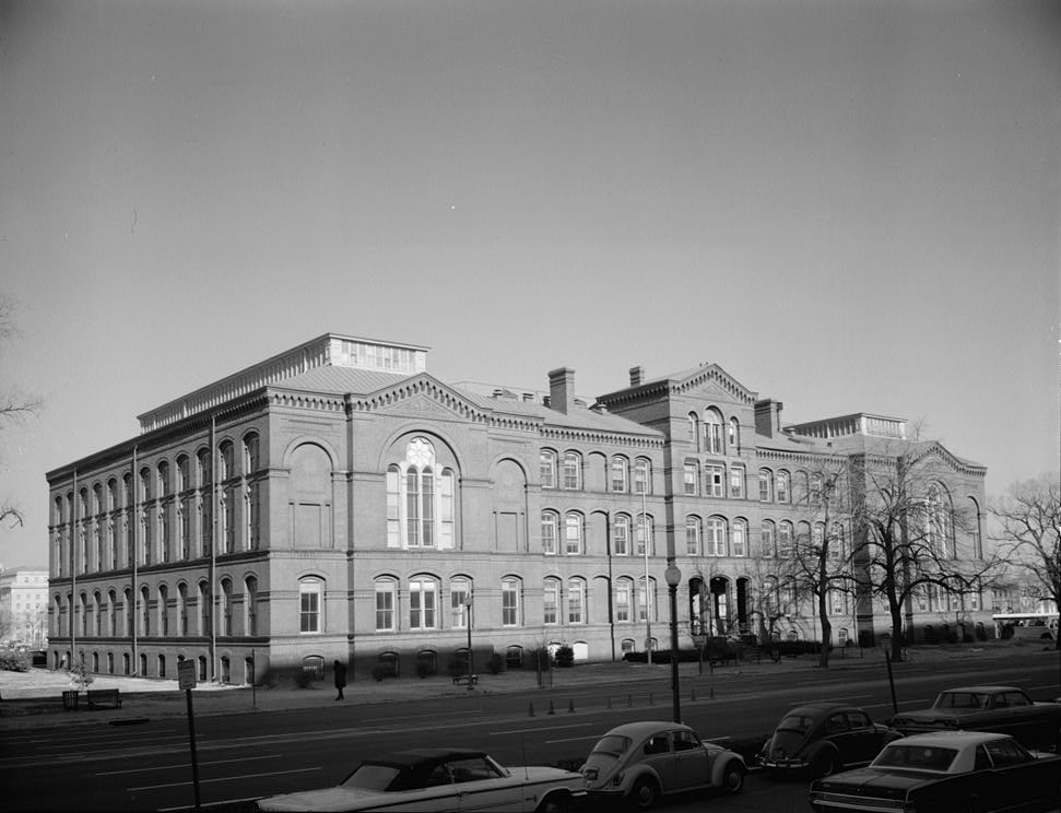 The Army Medical Museum and Library (West side and South front), located at the corner of South B Street and Seventh Street SW in Washington, DC. It was demolished in the 1960s, and the site is currently home to the Hirshhorn Museum and Sculpture Garden. It housed a collection of surgical and medical specimens and a medical library, which was subsequently incorporated into the collections of the National Museum of Health and Medicine, the Armed Forces Institute of Pathology, and the National Library of Medicine.